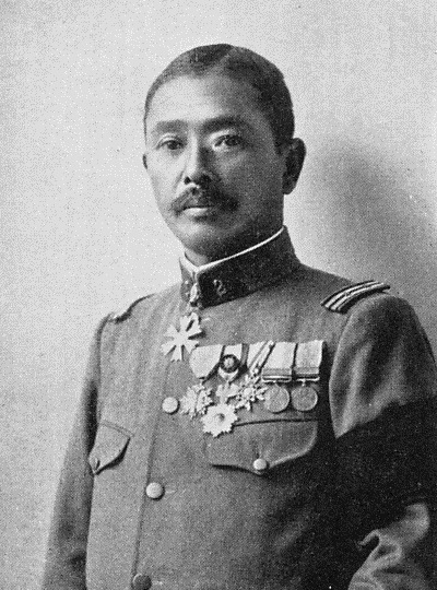 Kahei Senda